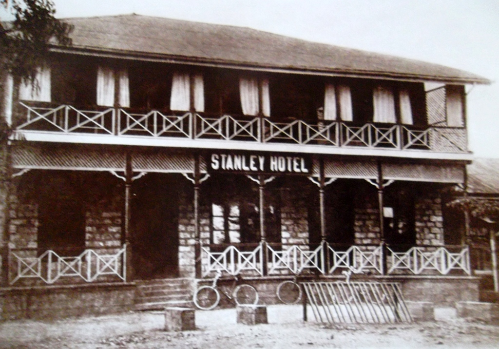 Stanley Hotel Nairobi Kenya 1903